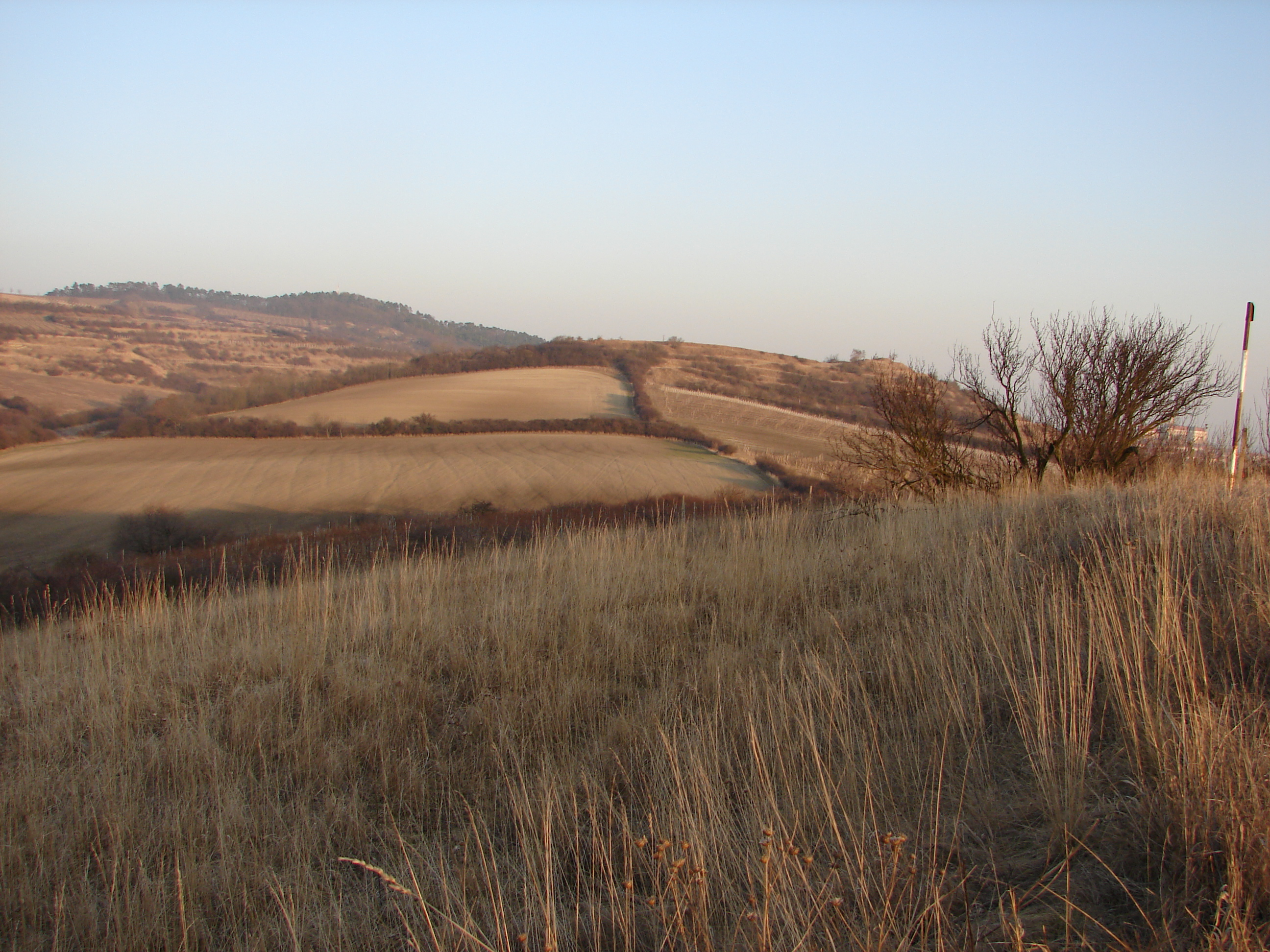 Natural monument Anenský vrch near Mikulov, Břeclava District, Czech Republic